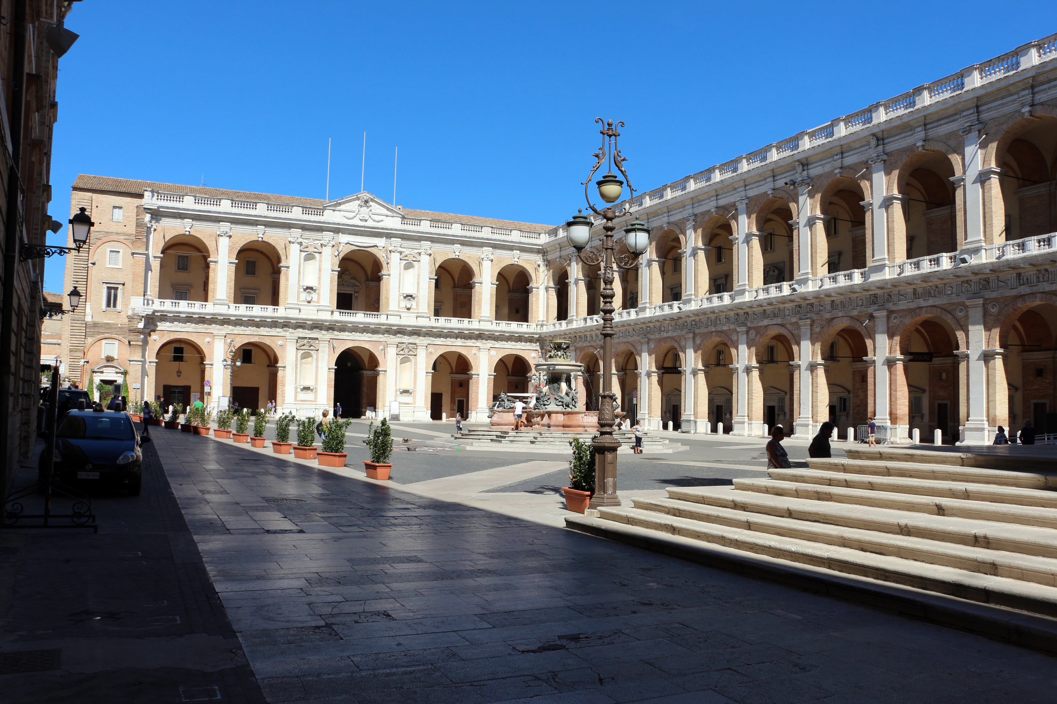 Santuario della Santa Casa (Loreto)